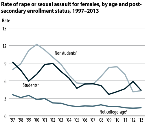 Rate of rape or sexual assault for females, by age and post- secondary enrollment status, 1997–2013